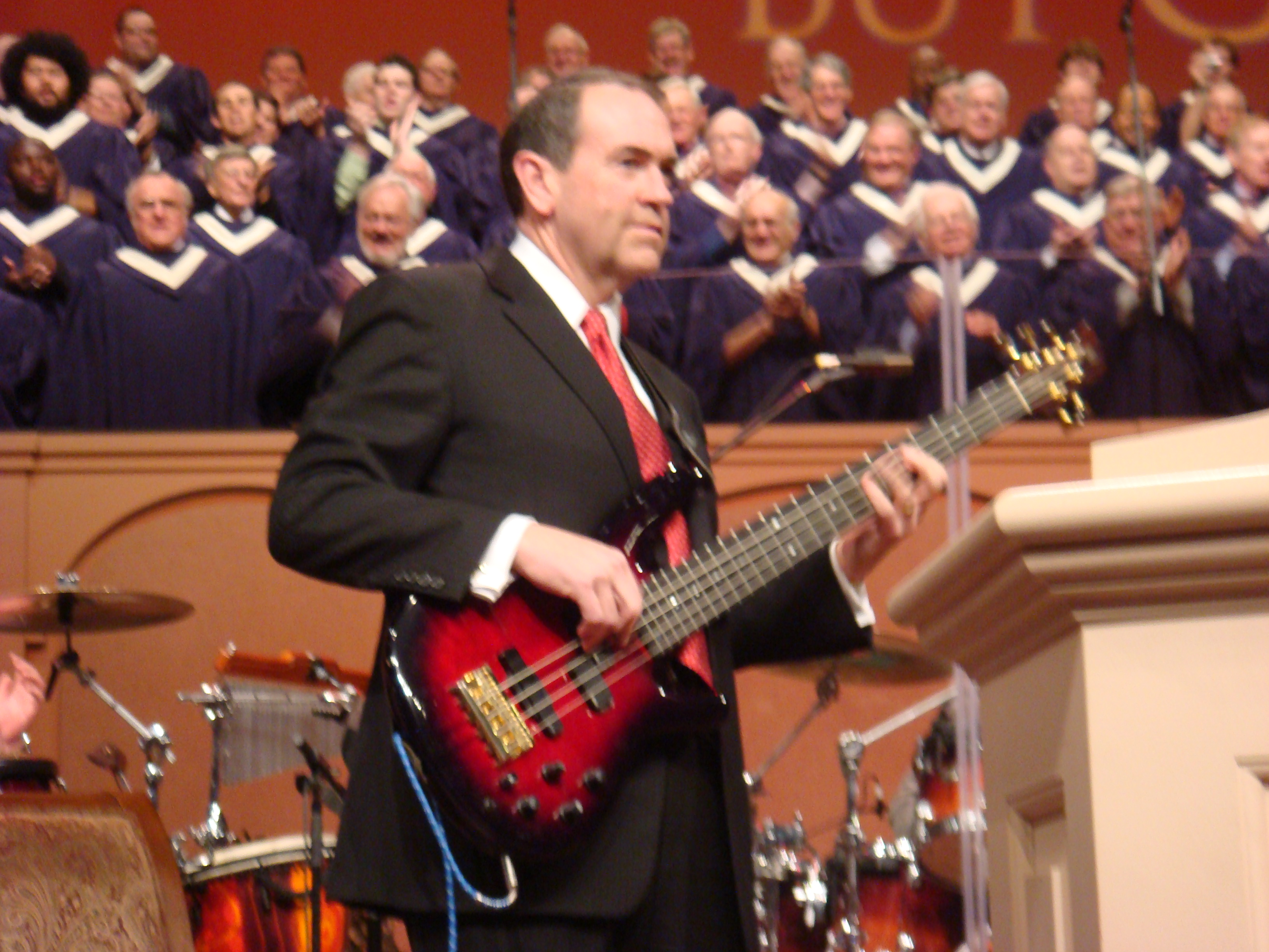 Mike Huckabee at Thomas Road Baptist Church